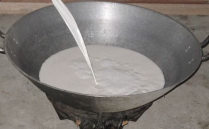 Coconut milk (kakang gata) being poured to the "talyasi" ready for cooking into coconut oil.